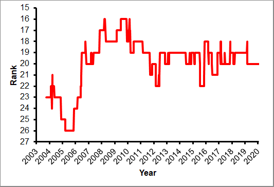 IRB World Rankings from